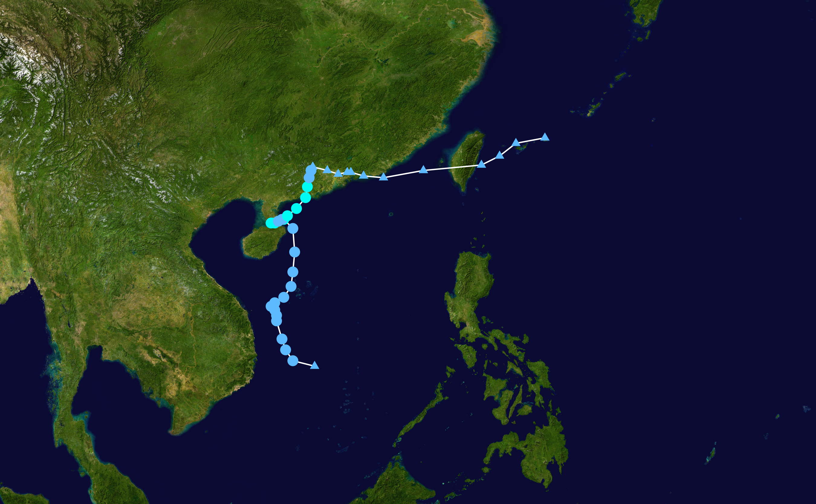 Track map of Tropical Storm Ewiniar of the 2018 Pacific typhoon season. The points show the location of the storm at 6-hour intervals. The colour represents the storm's maximum sustained wind speeds as classified in the Saffir–Simpson scale (see below), and the shape of the data points represent the nature of the storm, according to the legend below. Saffir–Simpson scale Tropical depression≤38 mph≤62 km/h Category 3111–129 mph178–208 km/h Tropical storm39–73 mph63–118 km/h Category 4130–156 mph209–251 km/h Category 174–95 mph119–153 km/h Category 5≥157 mph≥252 km/h Category 296–110 mph154–177 km/h Unknown Storm type Tropical cyclone Subtropical cyclone Extratropical cyclone / Remnant low / Tropical disturbance / Monsoon depression